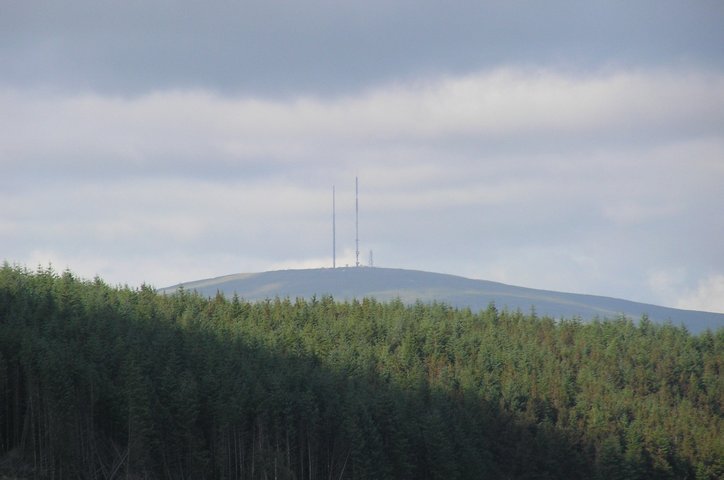 View of Mullaghanish taken from the Foil road near the Top of Coom. Replacement of the old mast is underway as part of Ireland's digital switchover to DTT to be completed by 2012.